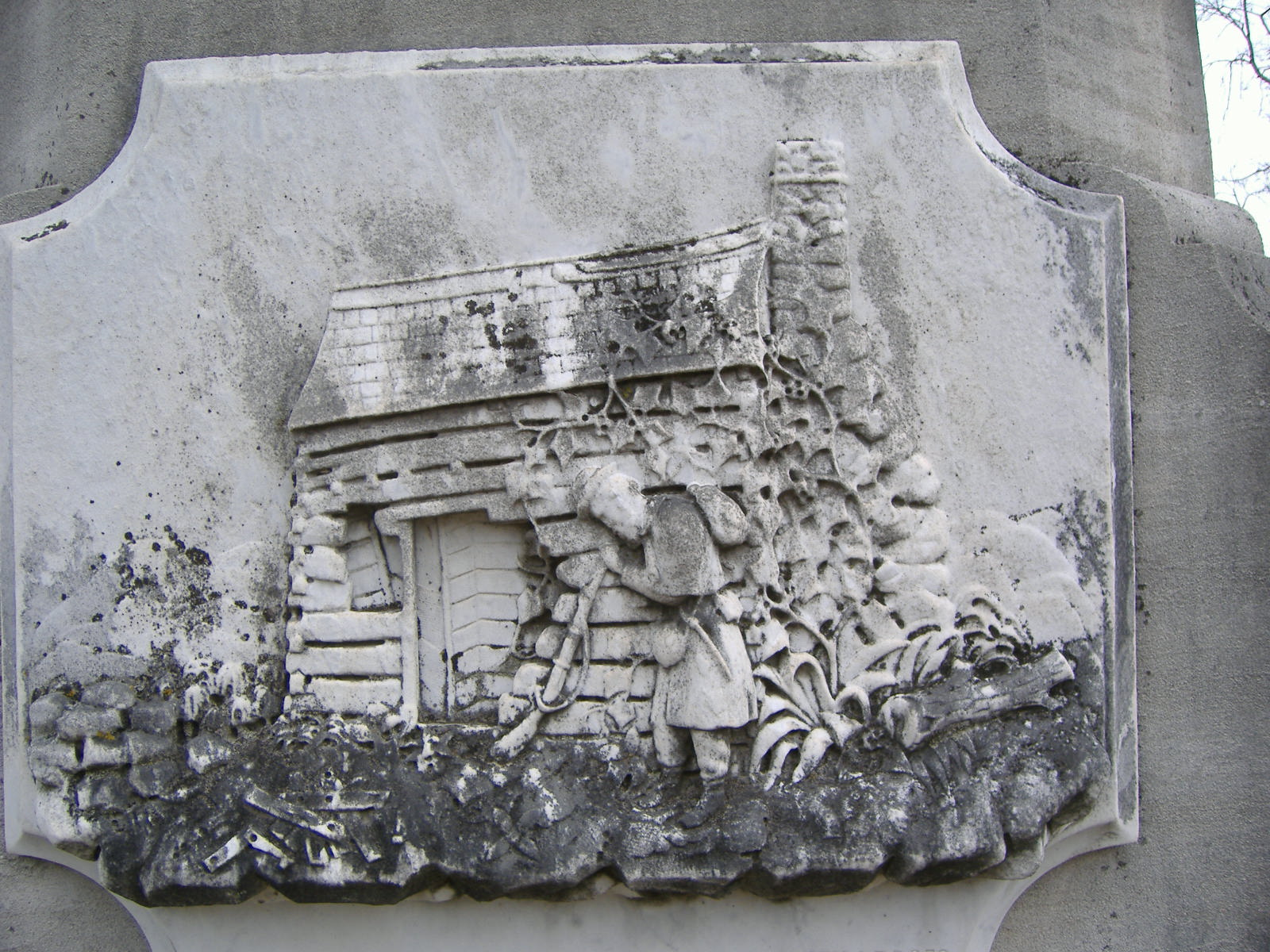 Relief at Confederate Monument in Bowling Green, Kentucky. Published in 1876, so unambiguously in the public domain.